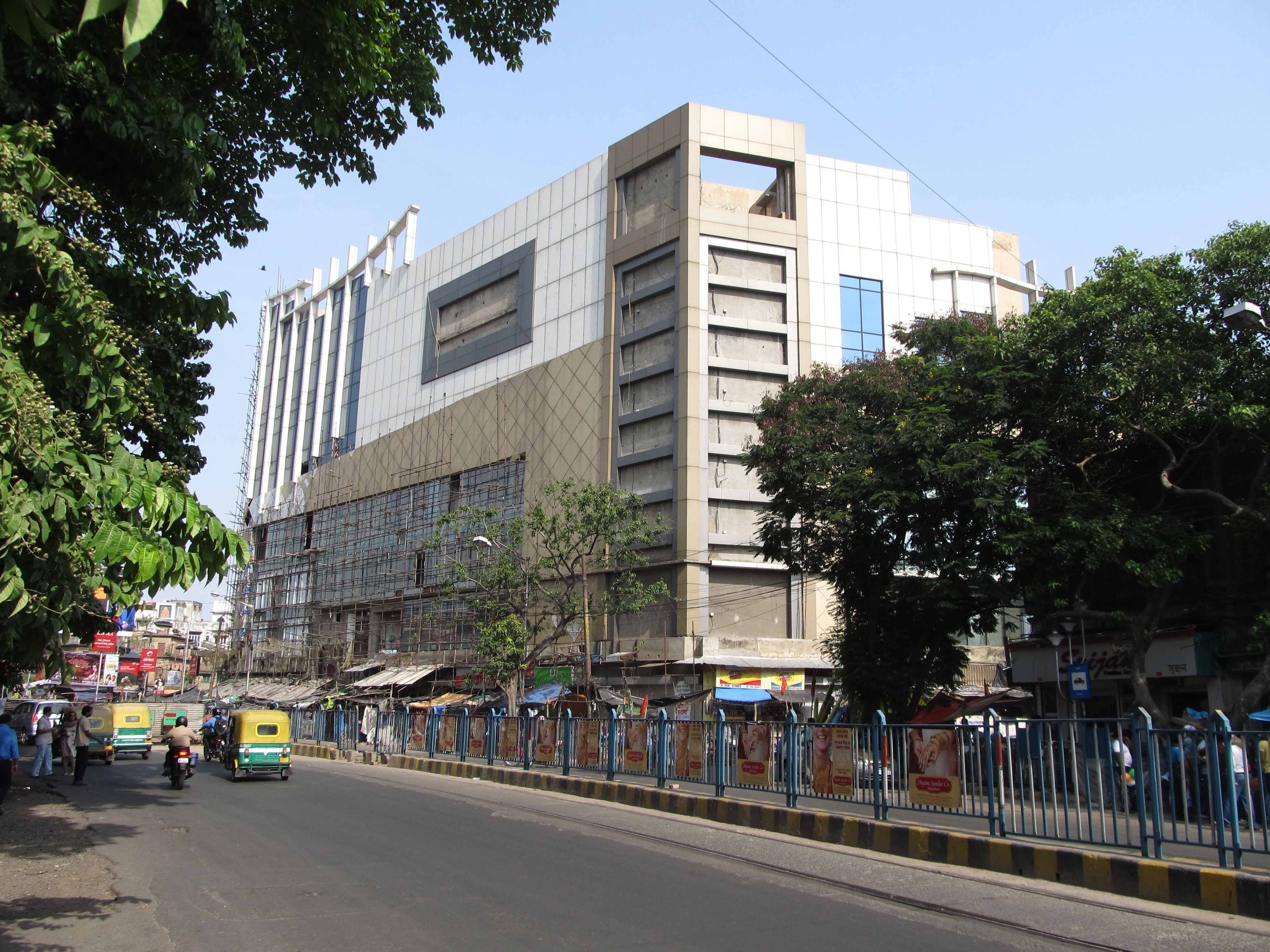 Photographed in Kolkata.